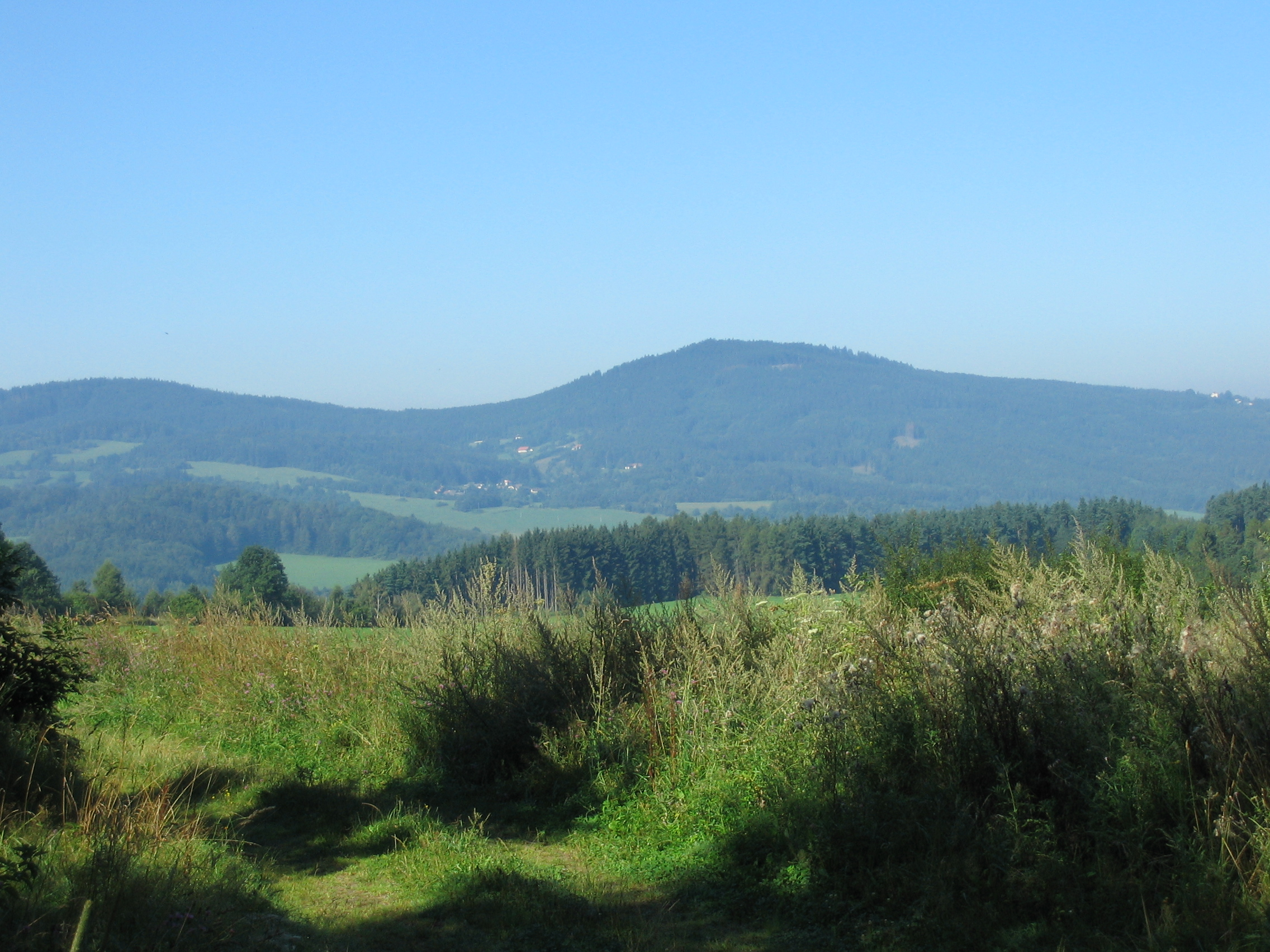 Eastern view of the hills Sedlo (902 m) and Nadějov (left, 873 m) in Bohemian Forest with villages Šimanov in the middle and Albrechtice on the right, Klatovy District, Czech Republic